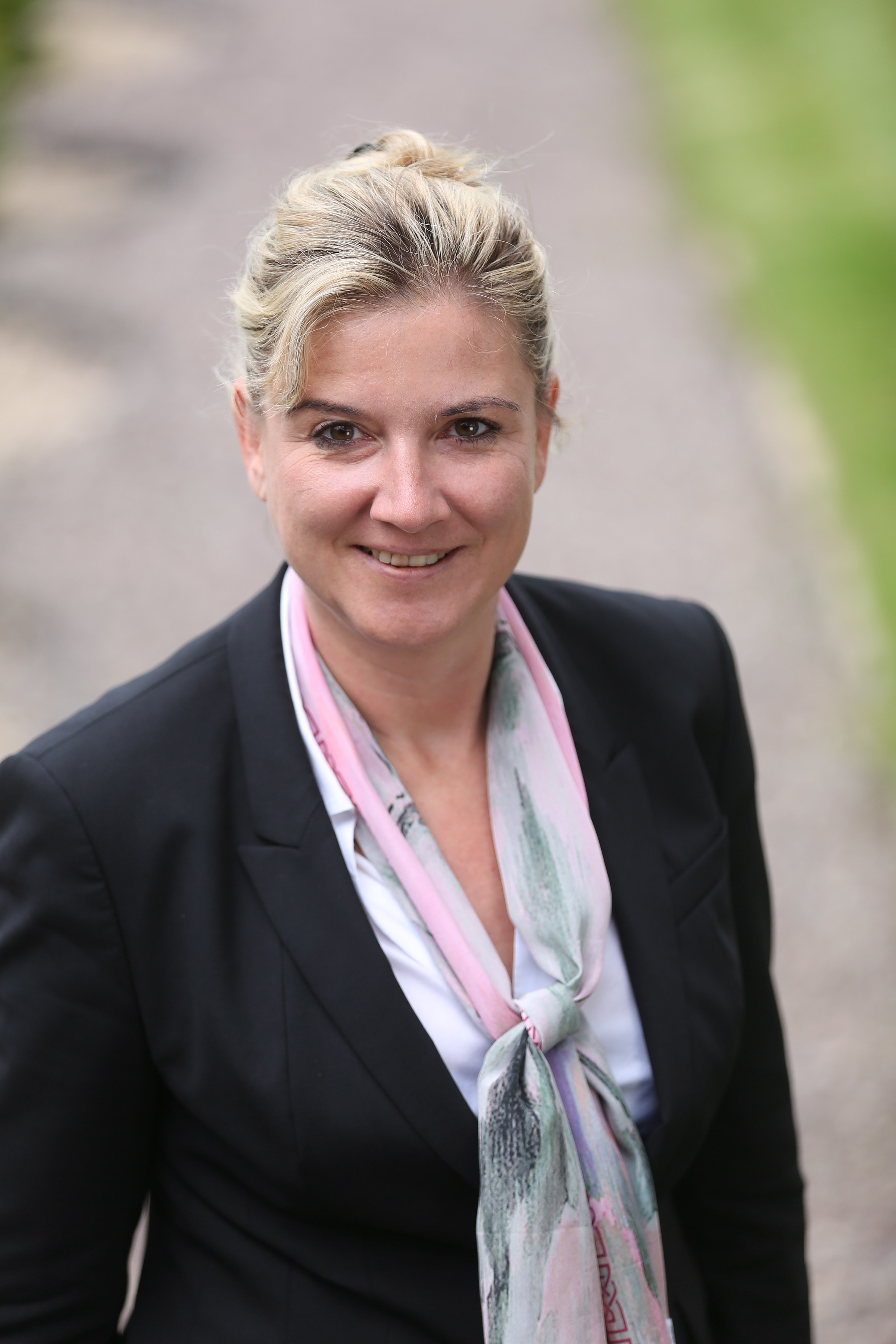 Prof. Dr. Petra Ahrweiler